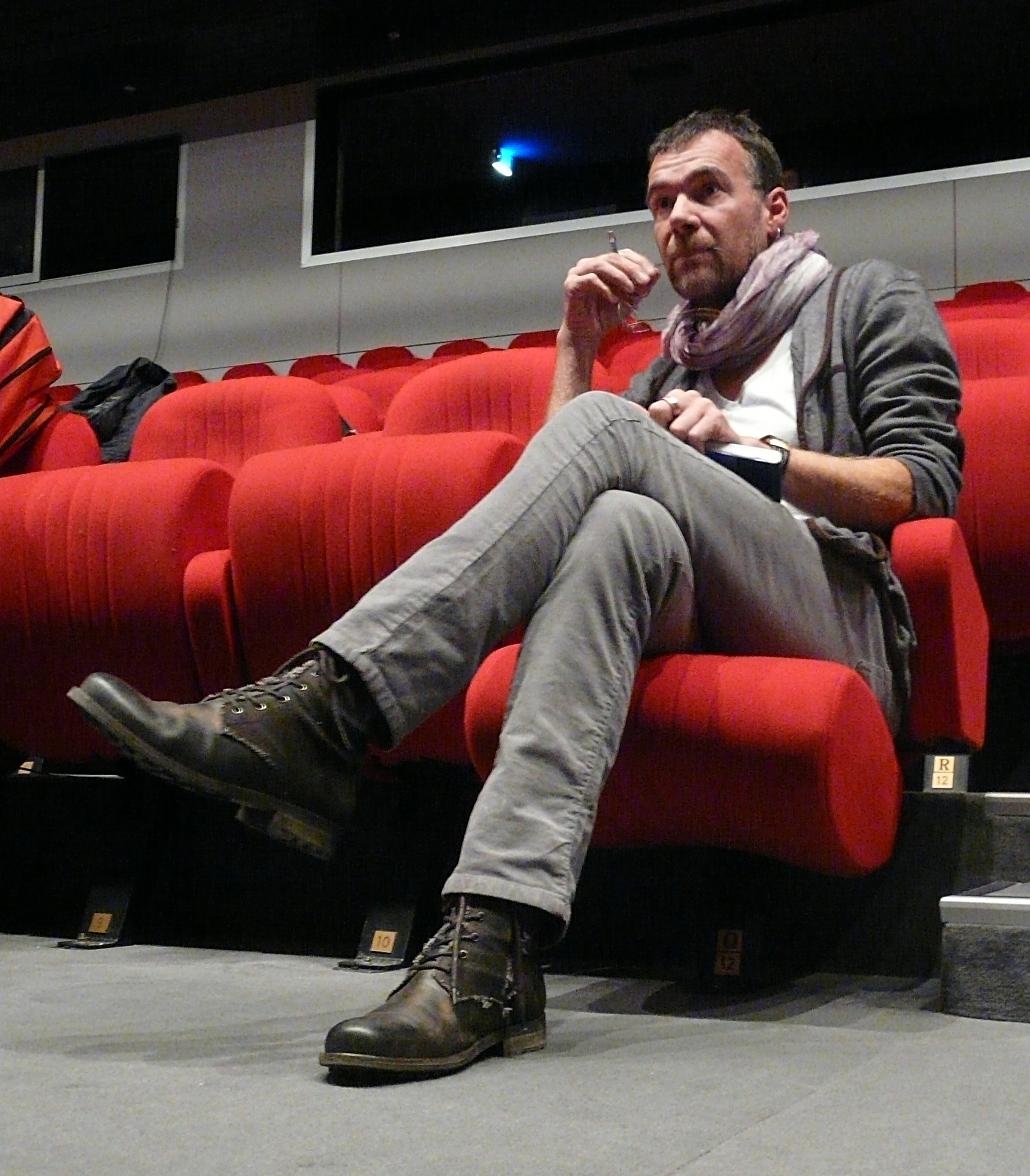 Claude Brumachon at cultural center "La Loge", in Beaupréau, on 11 October 2009, a few minutes before his company performed "Folie"